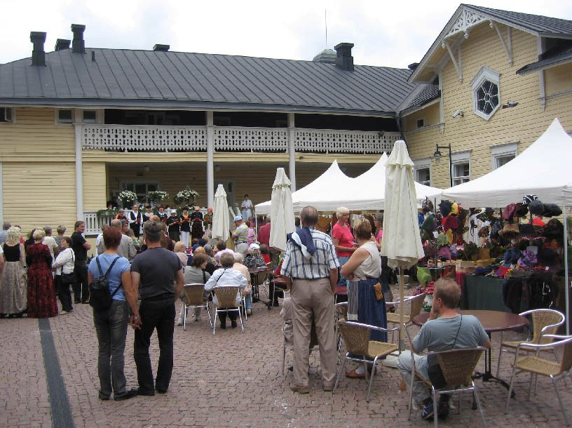 taitokortteli Joensuu Wanhan kaupungin päivä The Day of the Old City